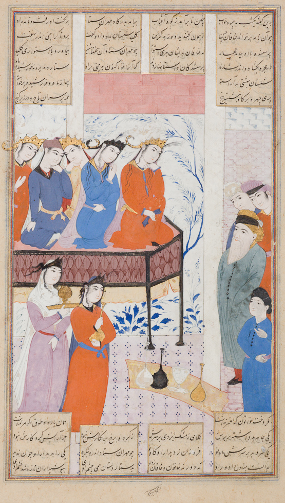 Mehran Setad selects a bride for Anushirvan. Illustrated manuscript of the Shahnameh, painting by Mo‘in Mosavver, c.1660.